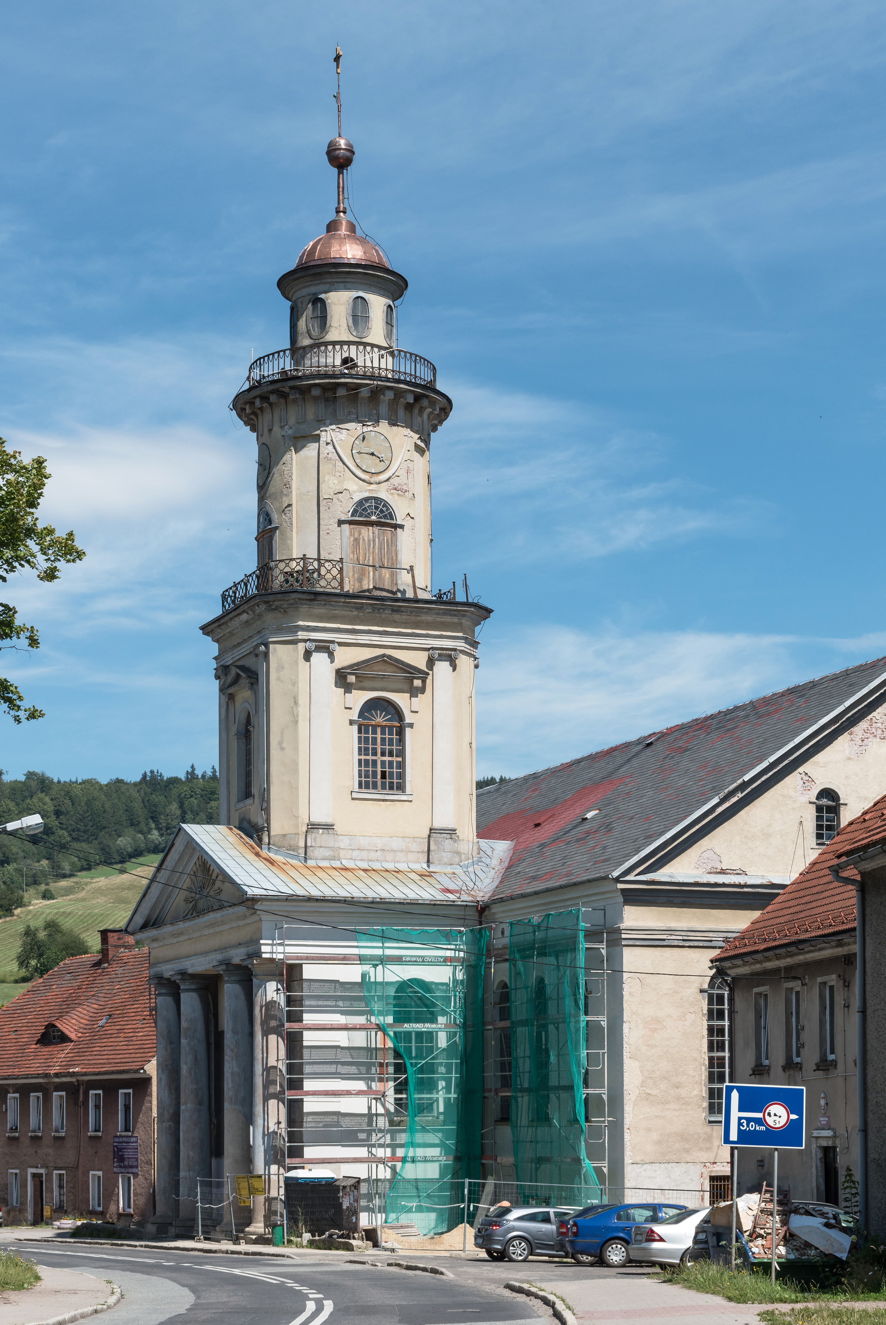 Our Lady Queen of Crown of the Kingdom of Poland church in Głuszyca, Poland